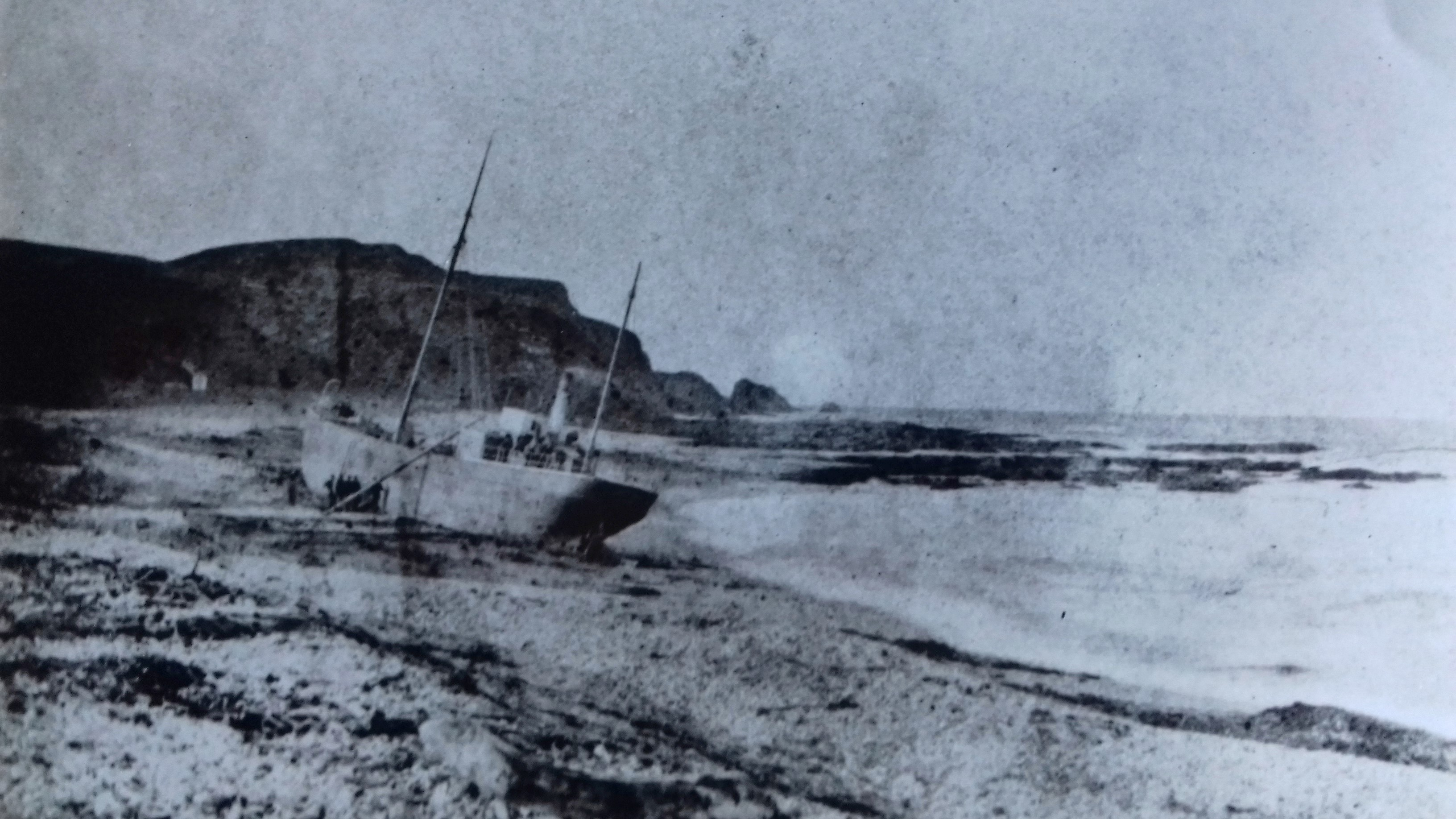 SS William Hope beached in Aberdour Bay, Aberdeenshire, Scotland, rescuer in 1884